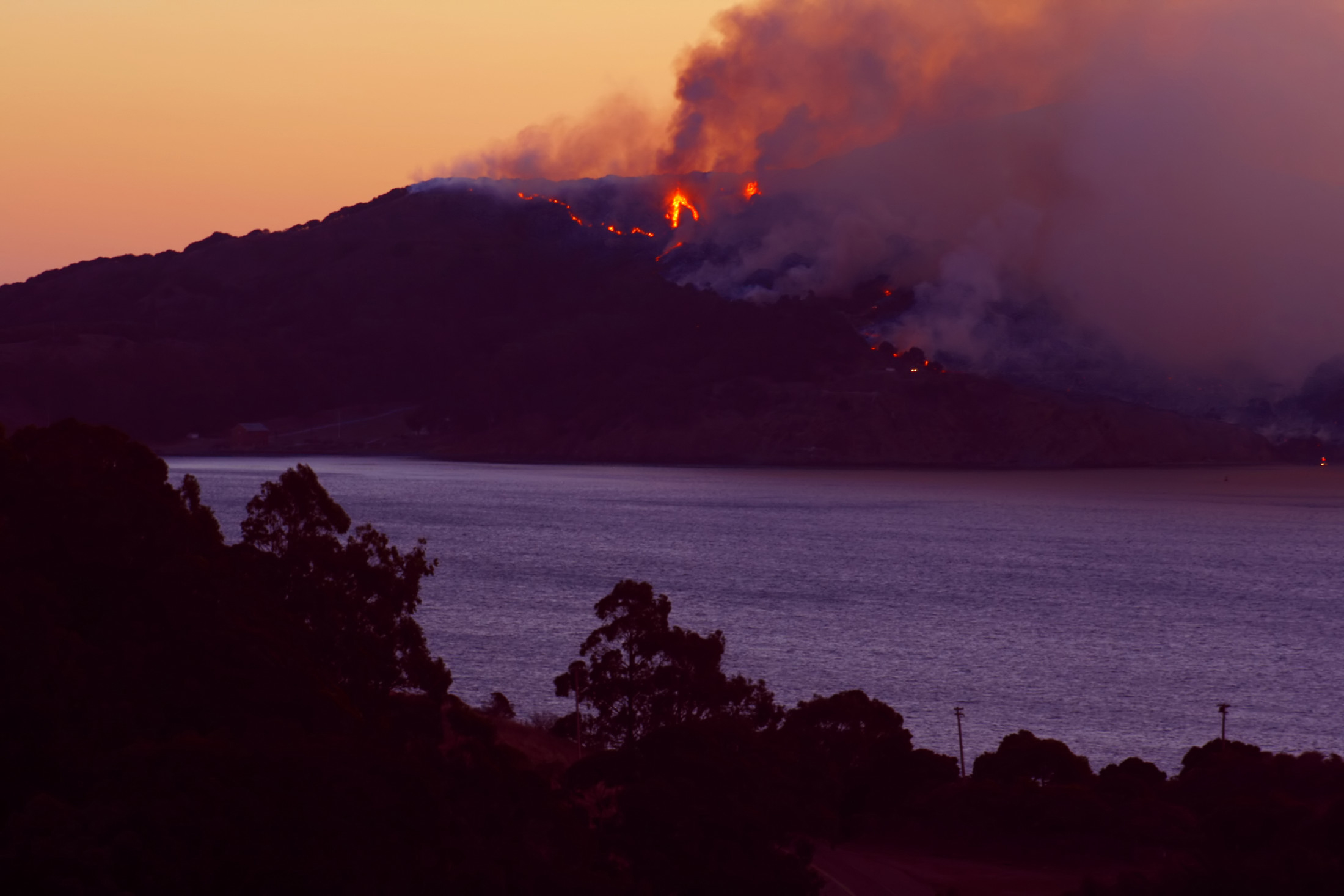 wildfire on Angel Island